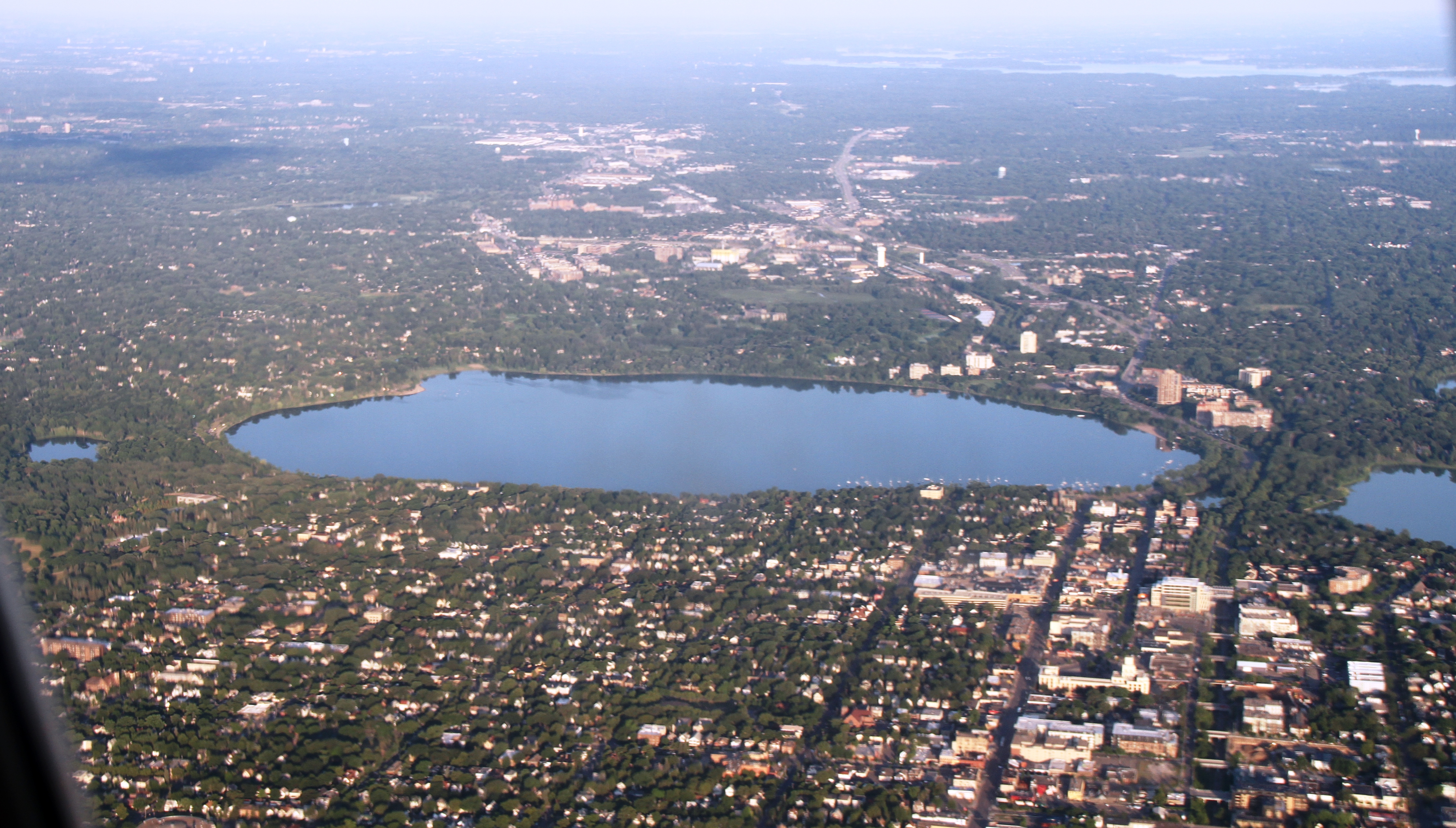 Aerial view of the lakes of Minneapolis